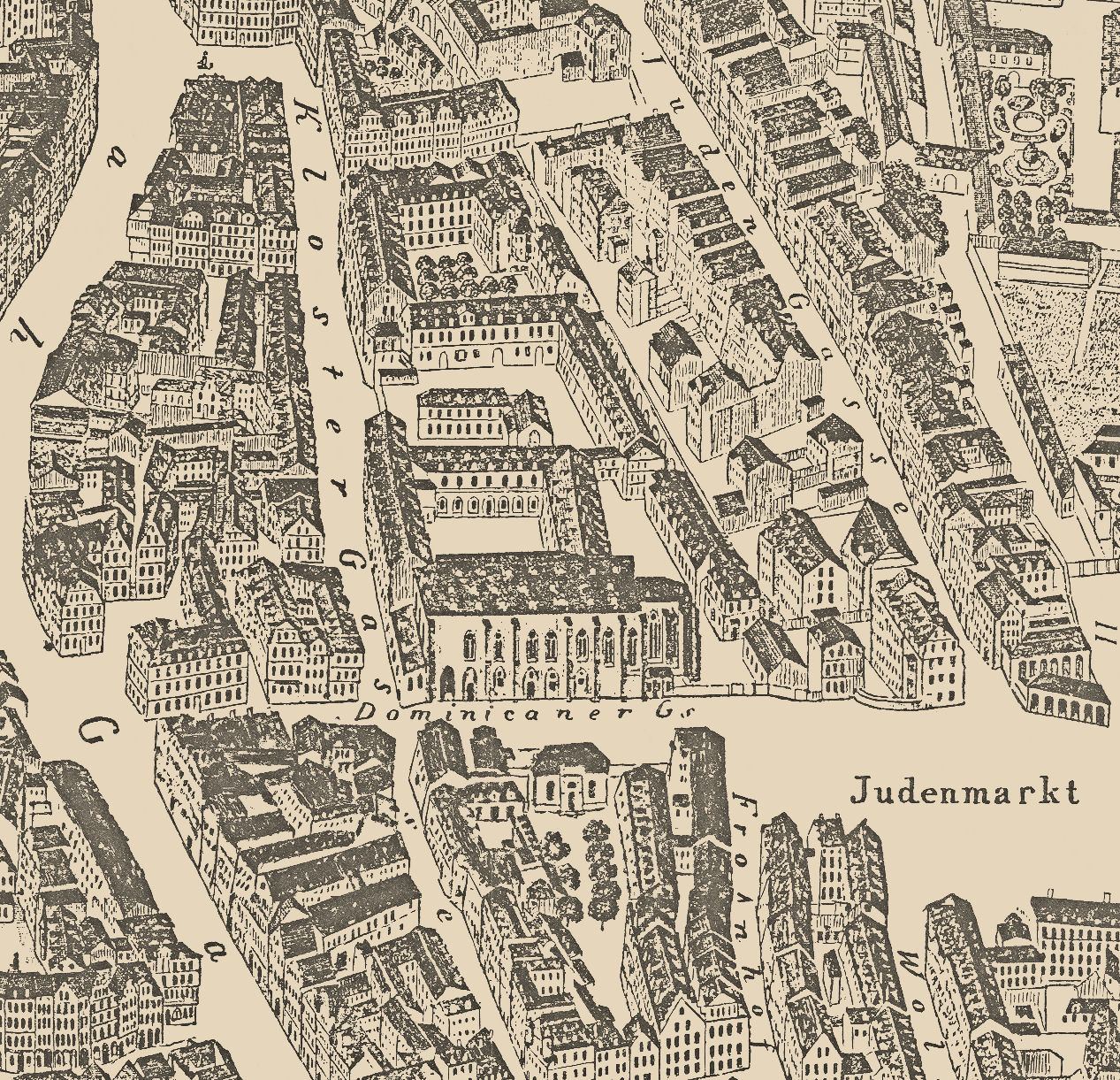 Details of the map of the city of Frankfurt am Main, Germany. To the right: Judengasse (“Jews' Alley”) and Judenmarkt ("Jews Market"), the former Jewish ghetto of Frankfurt am Main